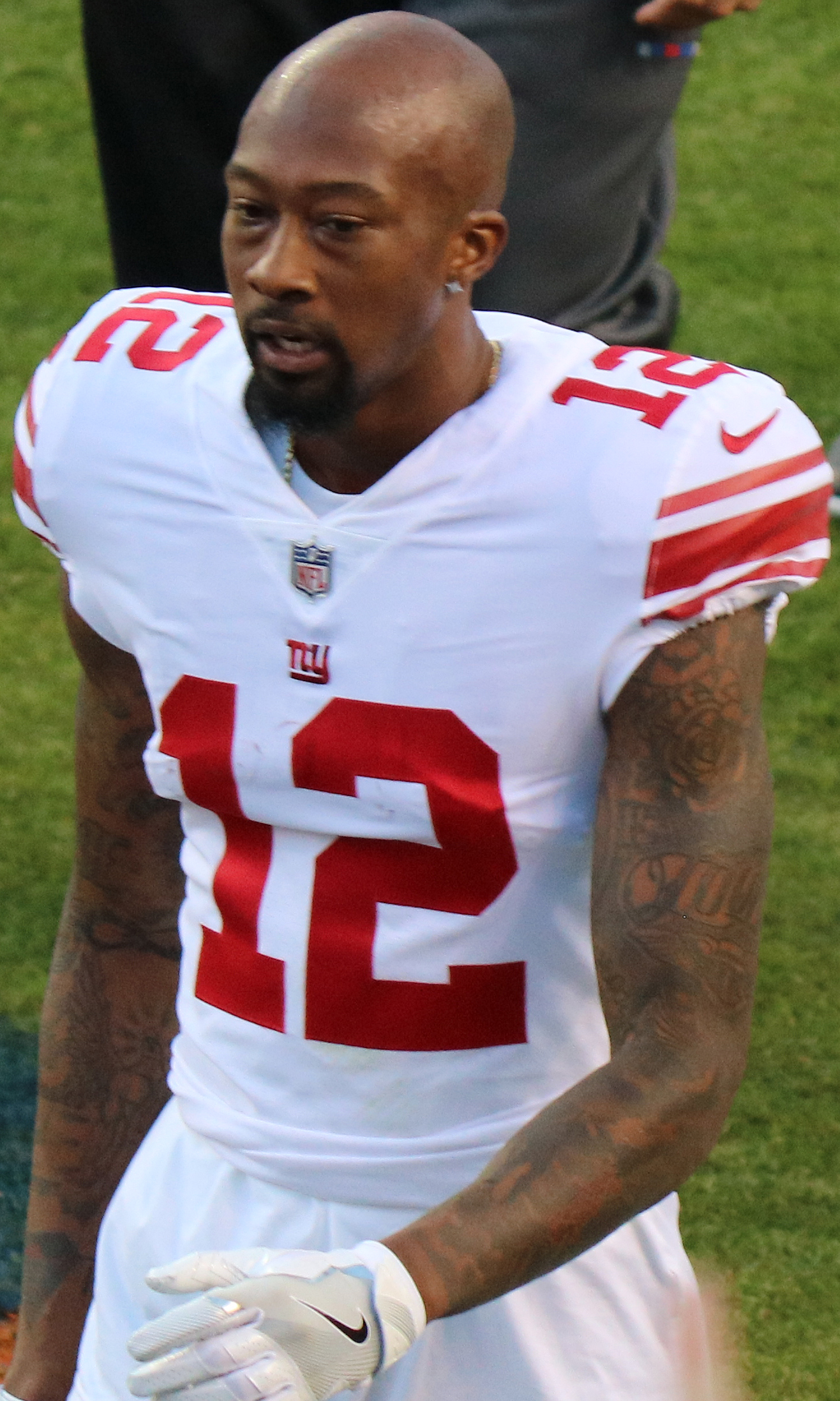 Tavarres King, a player on the National Football League.